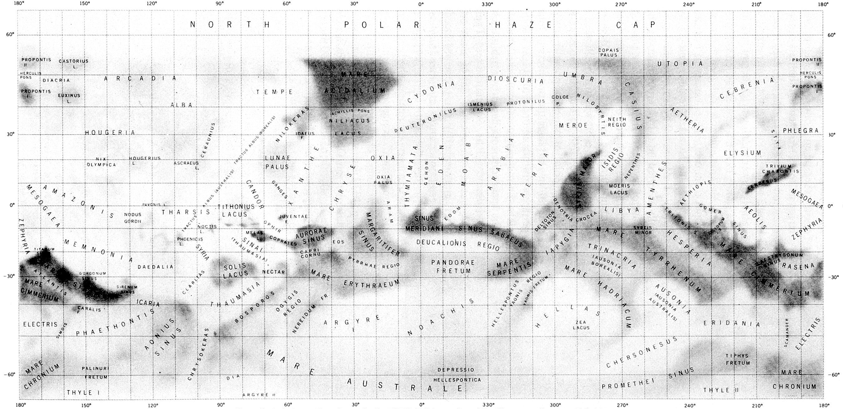 Albedo features of Mars, NASA image, before 1970. It is indicative of how little detail o the planet could astronomers make out with earth-based telescopes, even as late as 1970, just before the exploration of the planet by space probes begun. Mercator projection.